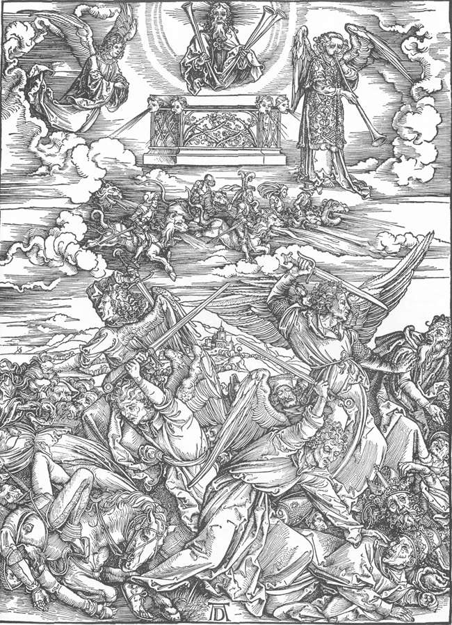 The Revelation of St John: The Battle of the Angels Woodcut, 39 x 28 cm Staatliche Kunsthalle, Karlsruhe